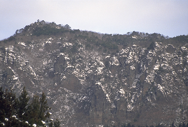 Mount Ryō, in Ryōzen-machi, Fukushima, Japan